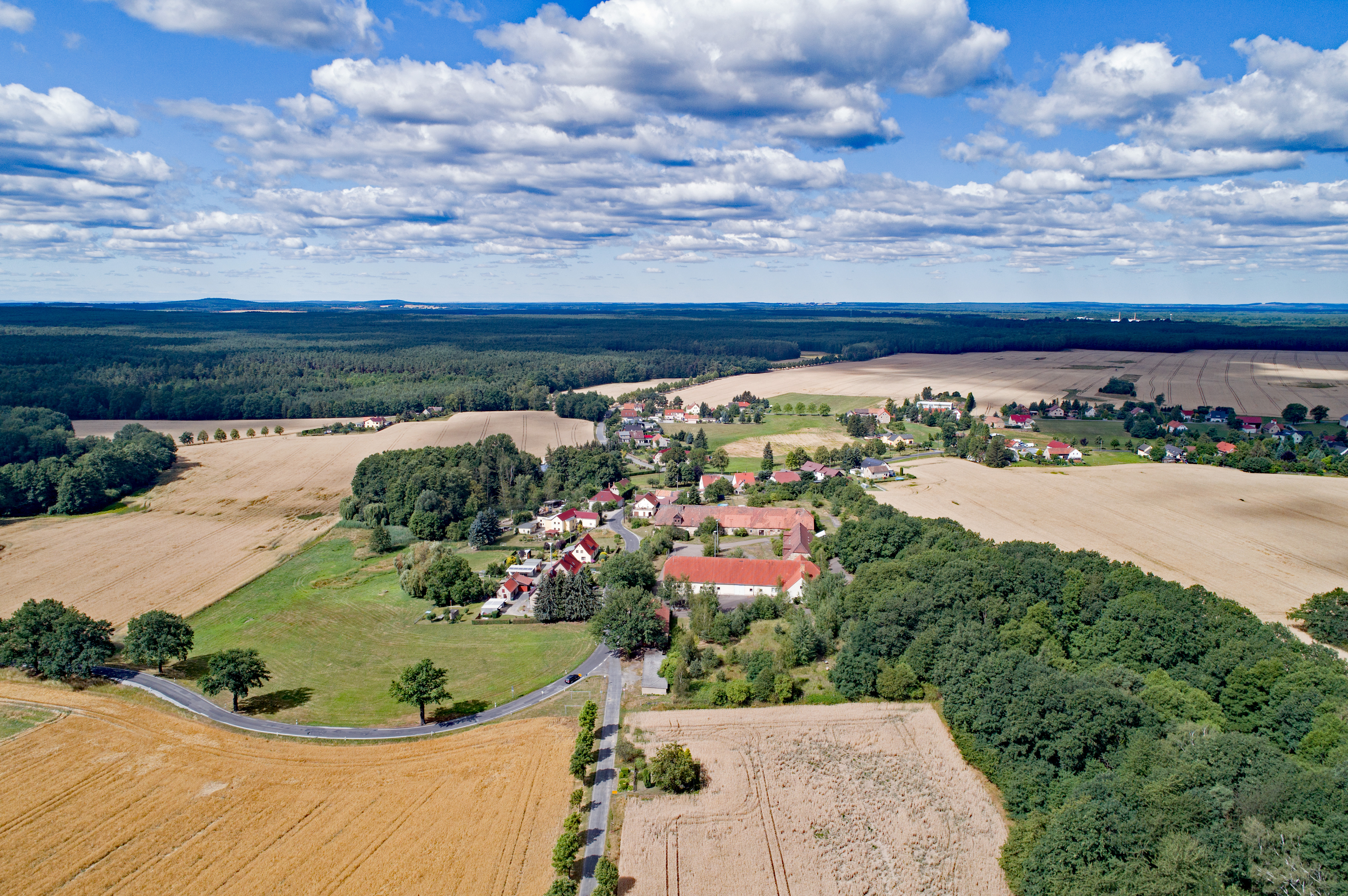 Bulleritz (Schwepnitz, Saxony, Germany) Hornjoserbsce: Powětrowy wobraz Bóleric pola Sepic